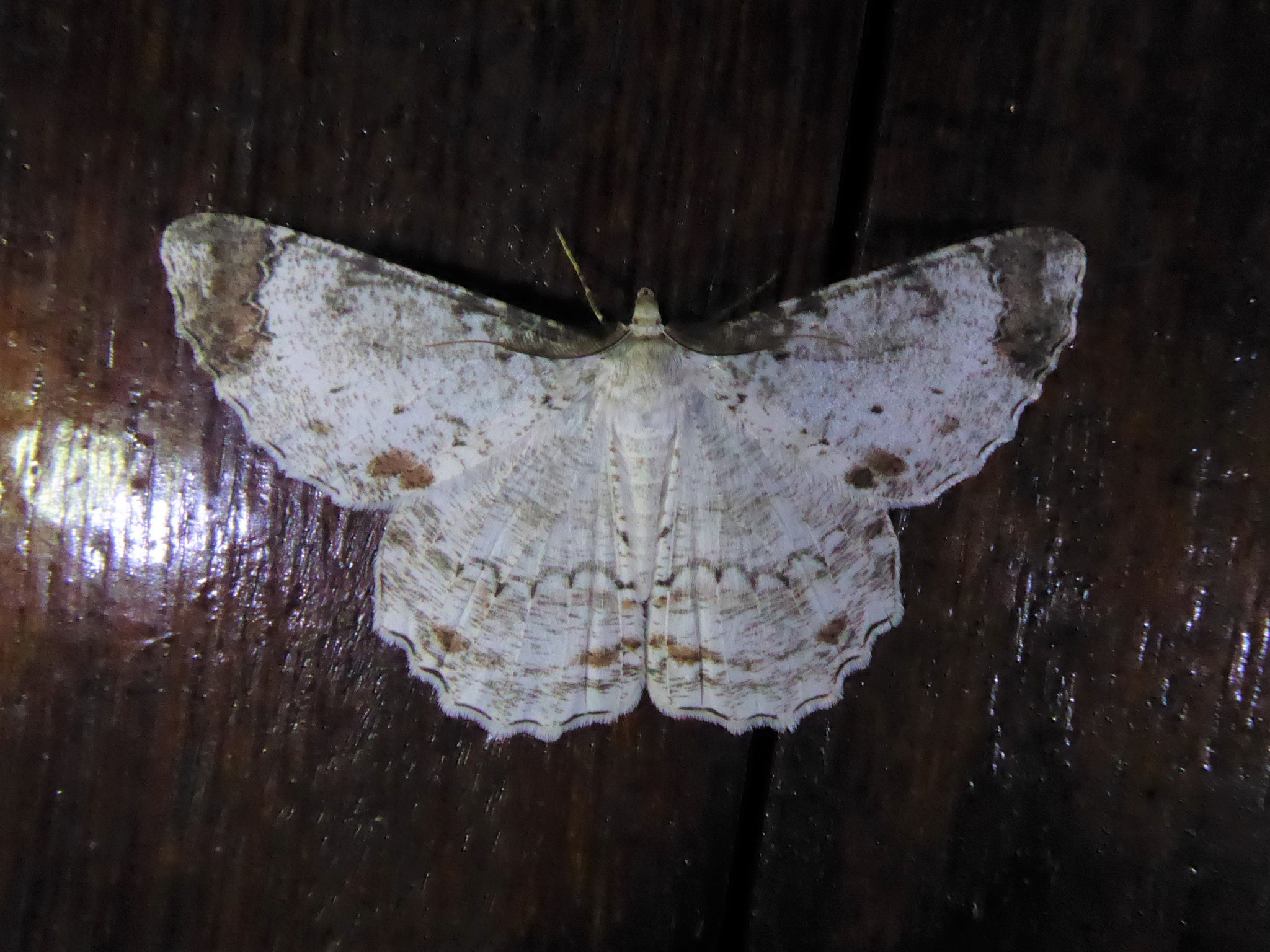 Epimecis puellaria. Species of insect.